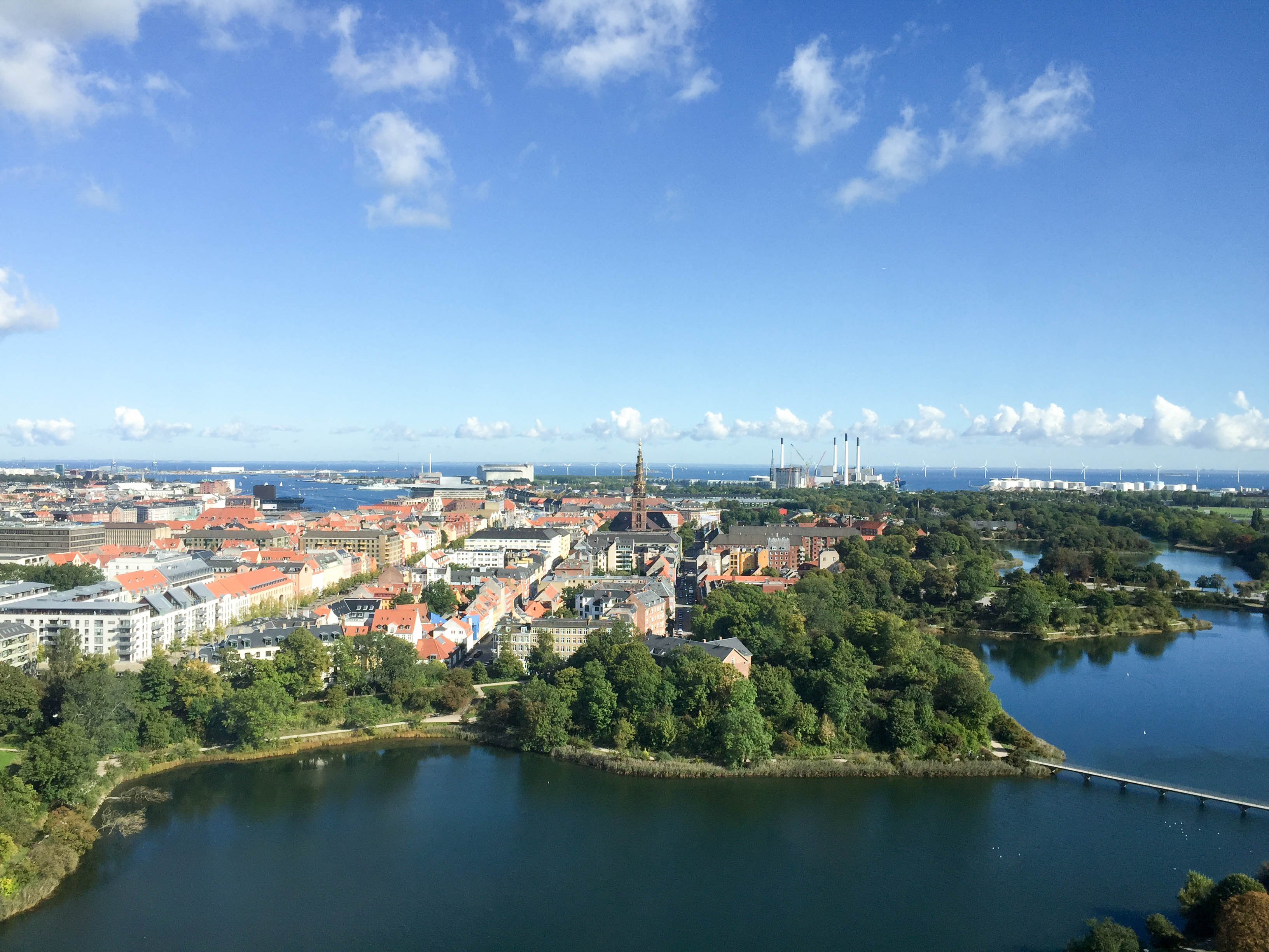 Panterens Bastion with the foot bridge across Stadsgraven in Copenhagen, Denmark2015